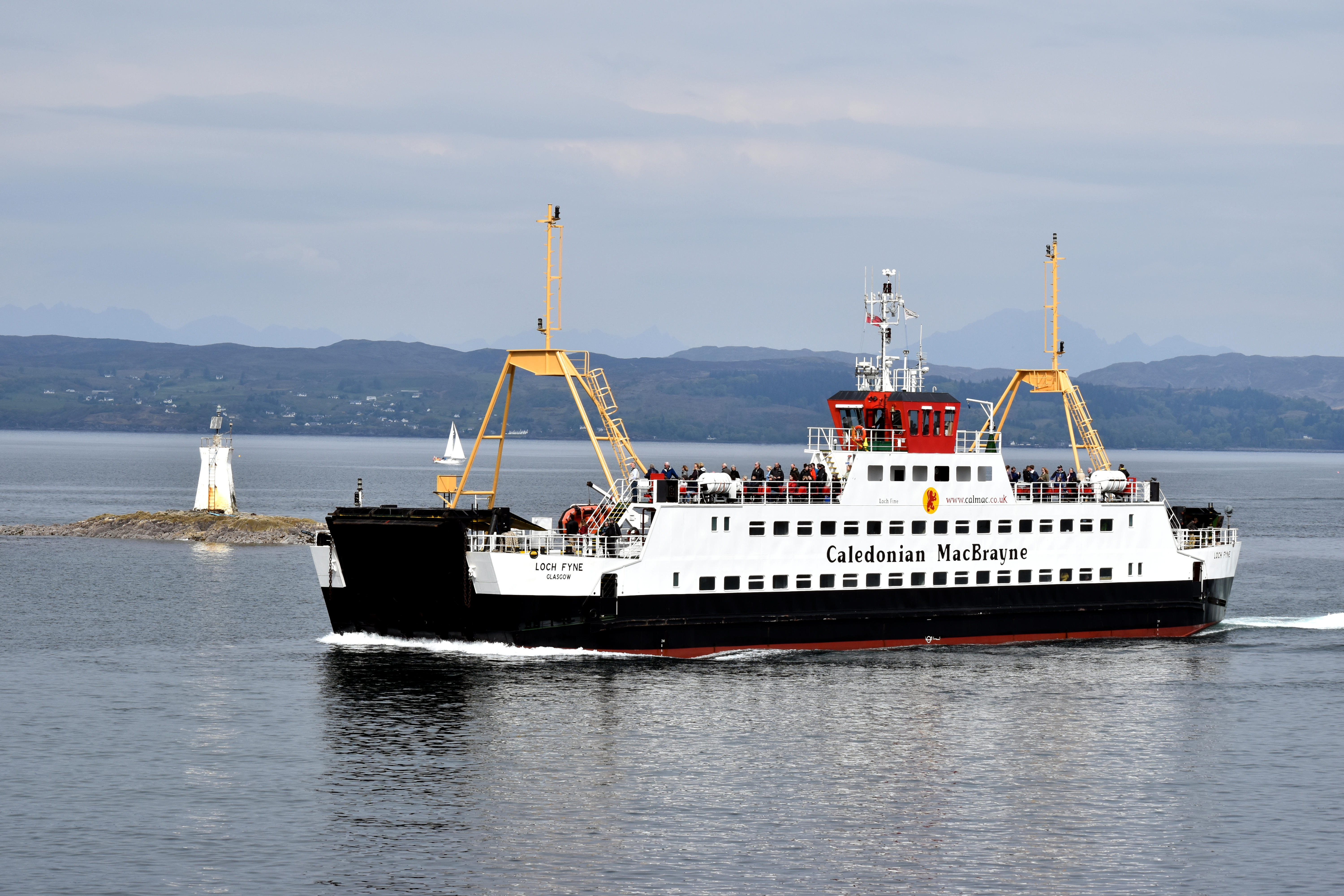 The CalMac ferry MV Loch Fyne, originally servant of Kyleakin and Lochaline, approaches Mallaig on one of her regularly timetabled sailings to and from Armadale, 11 May 2017.